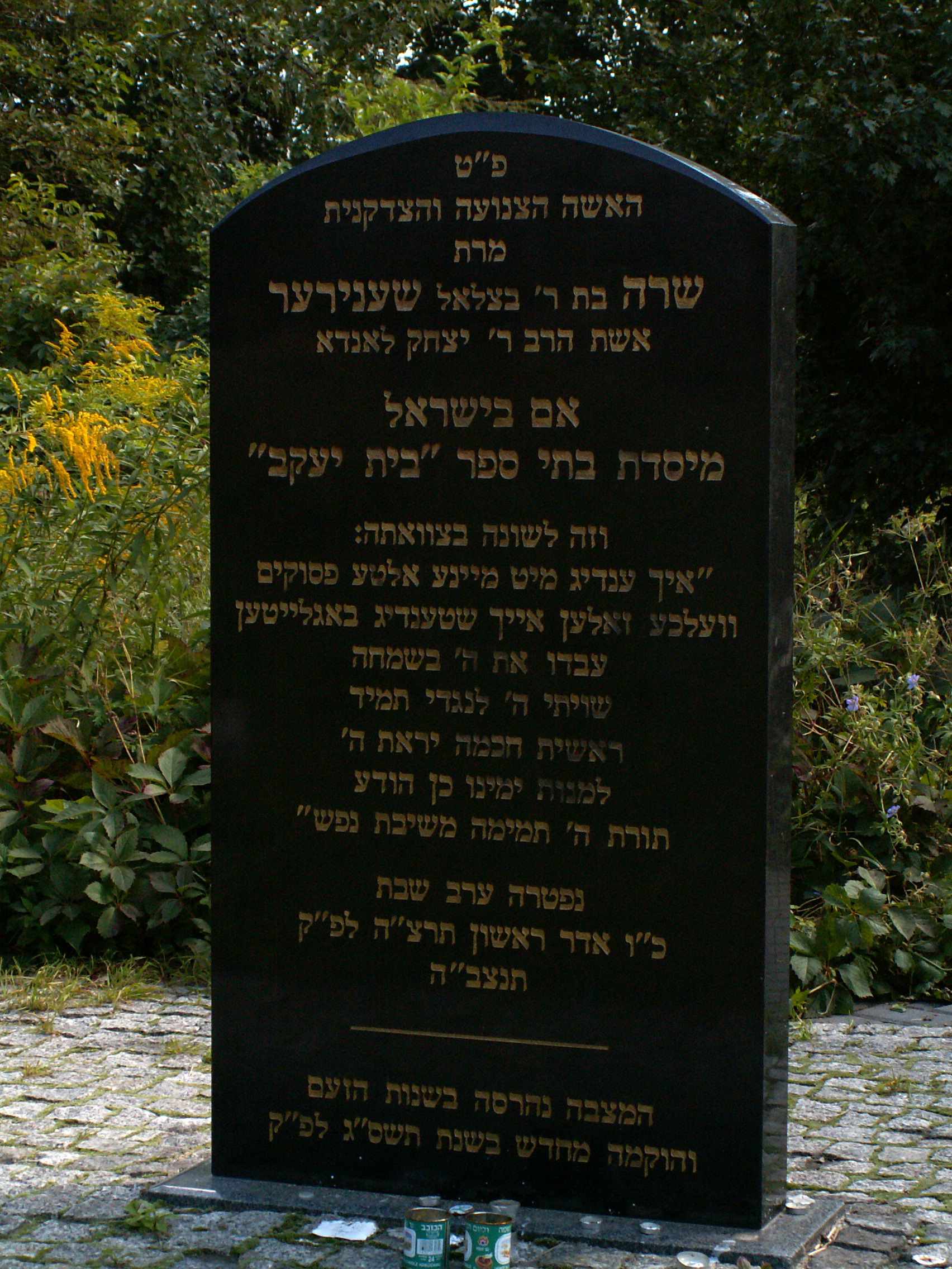 Podgorze new Jewish cemetery, Sara Schenirer memorial matzevah (tombstone), 3 Abrahama street, Krakow, Poland.